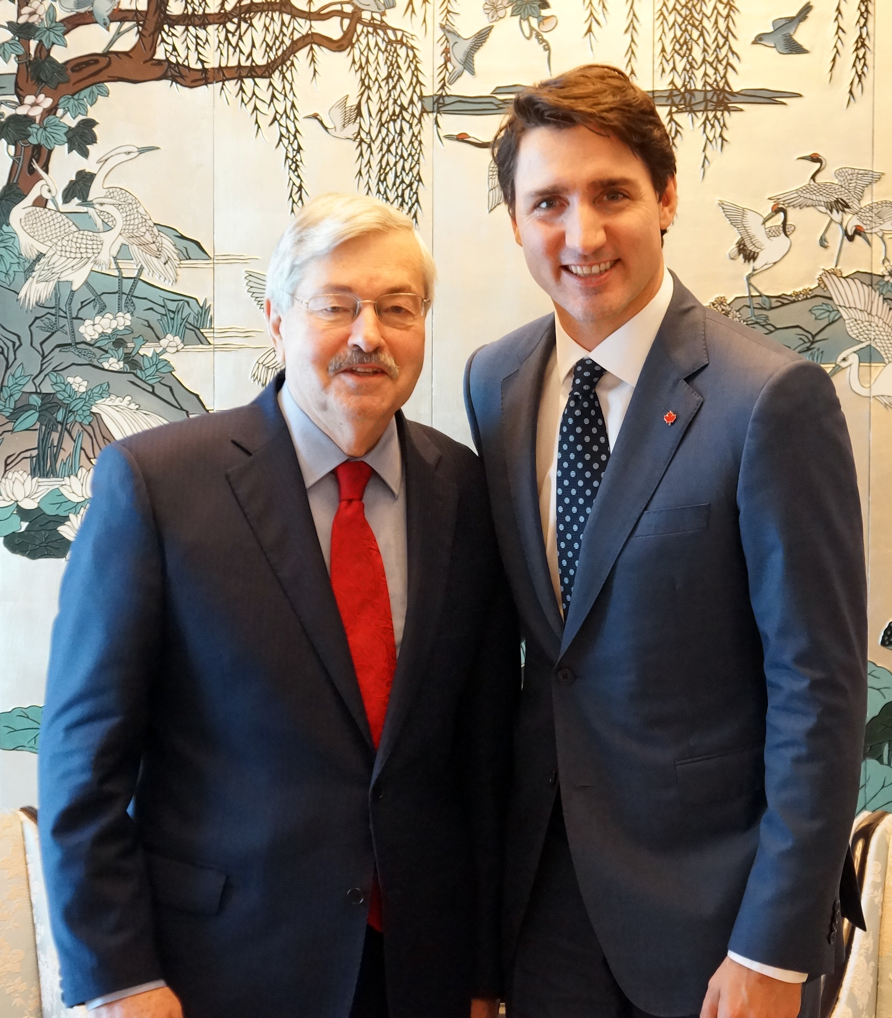 Ambassador Branstad Meets with Canadian Prime Minister Trudeau